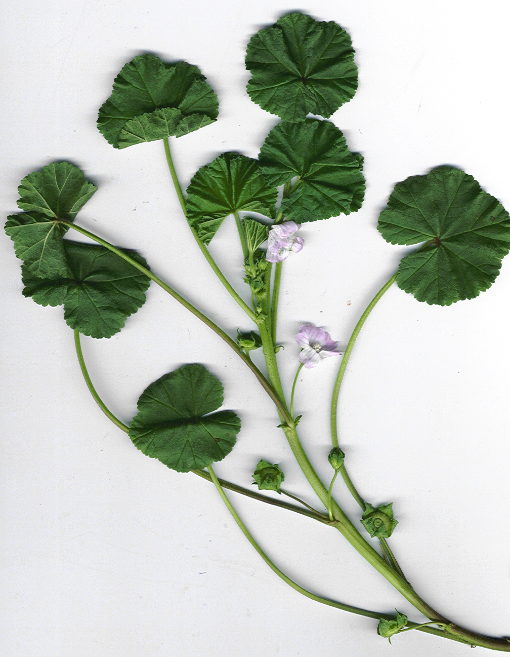 Malva neglecta (plant). Location: Maui, Makawao